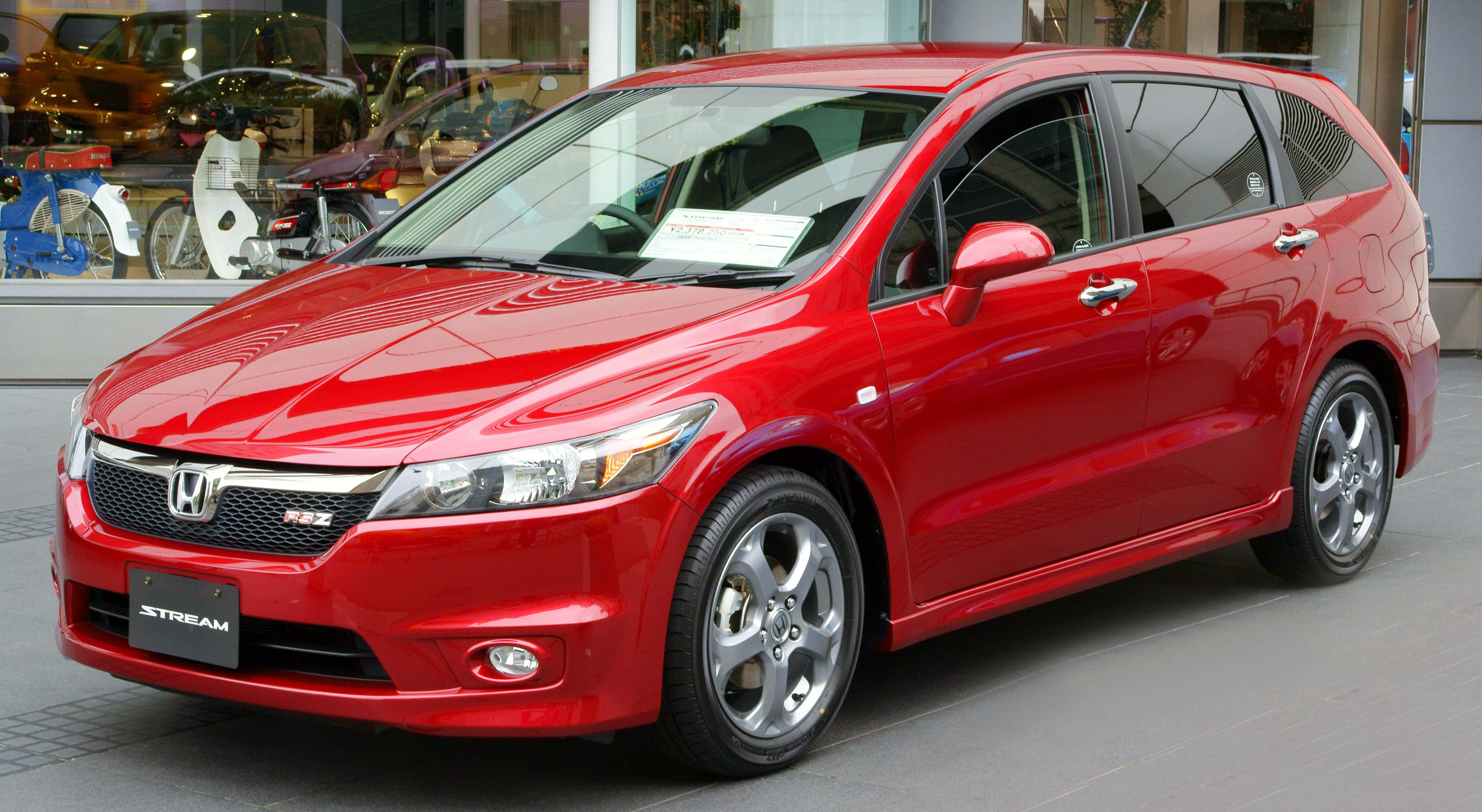 2006 2nd Honda Stream RSZ photographed in Honda Welcome Plaza Aoyama (Minato, Tokyo)